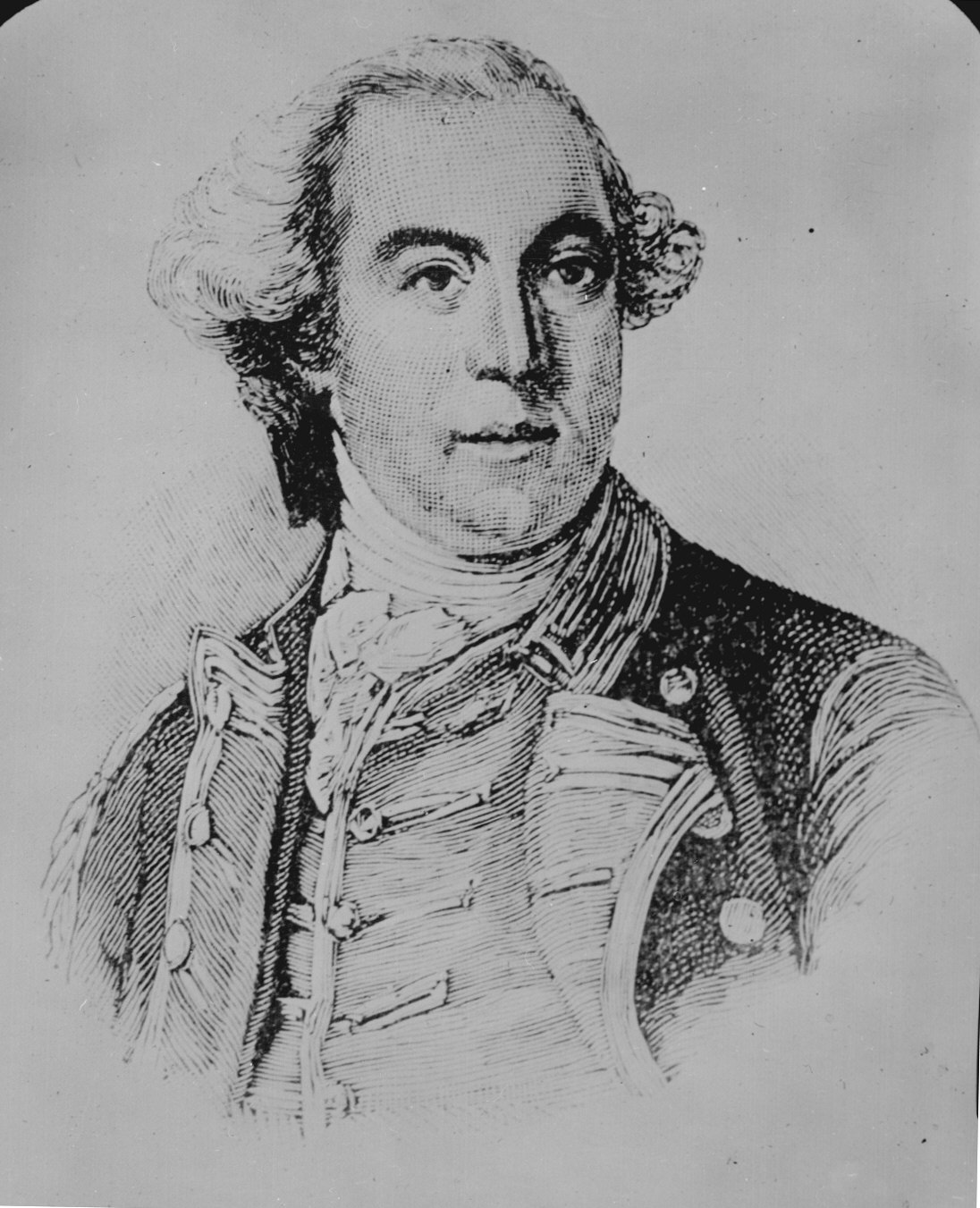 British General William Phillips. Engraving (bust).